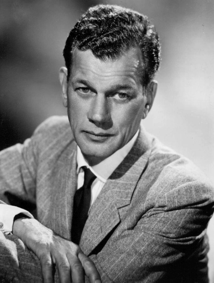 Publicity photo of Joseph Cotten from his NBC television program.